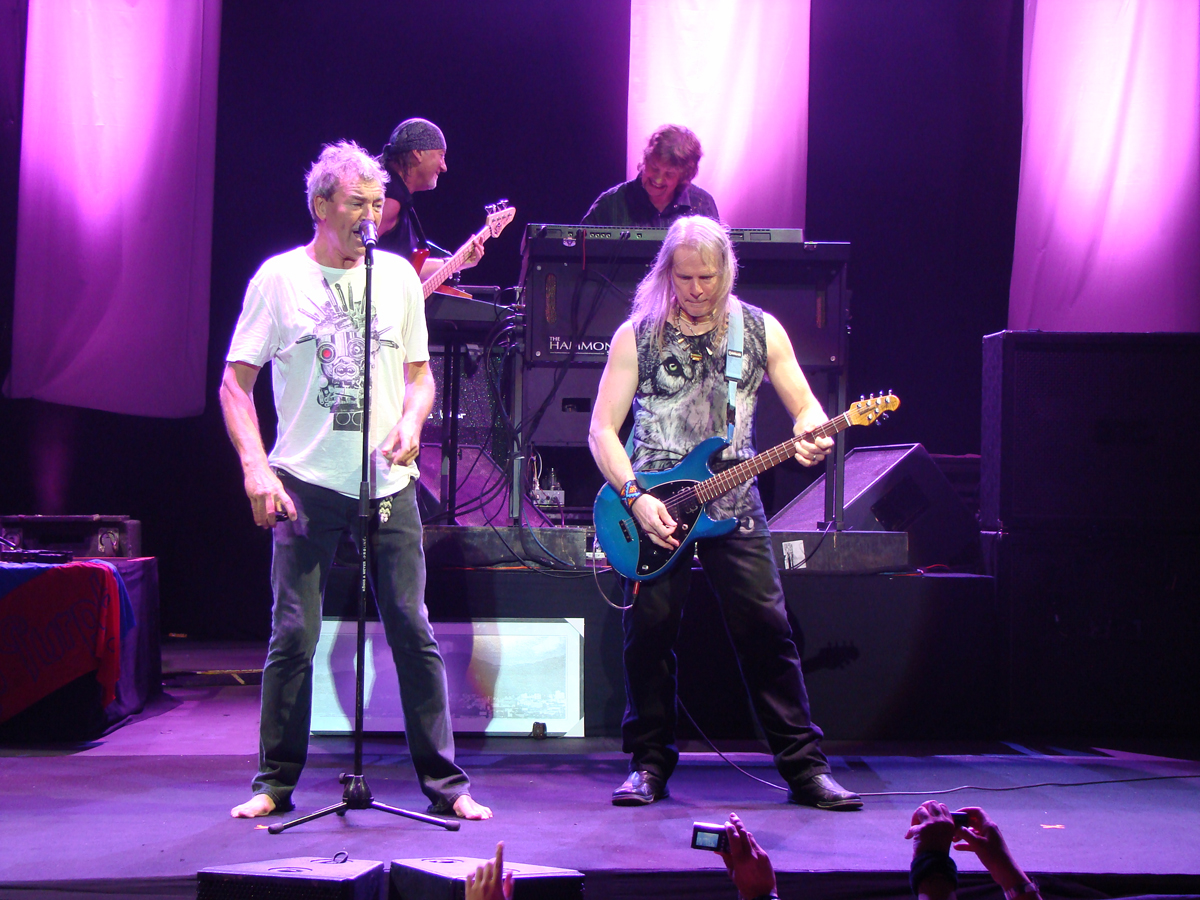 Deep Purple (Ian Gillan, Roger Glover, Don Airey, Steve Morse) on stage, unspecified location, January 2009